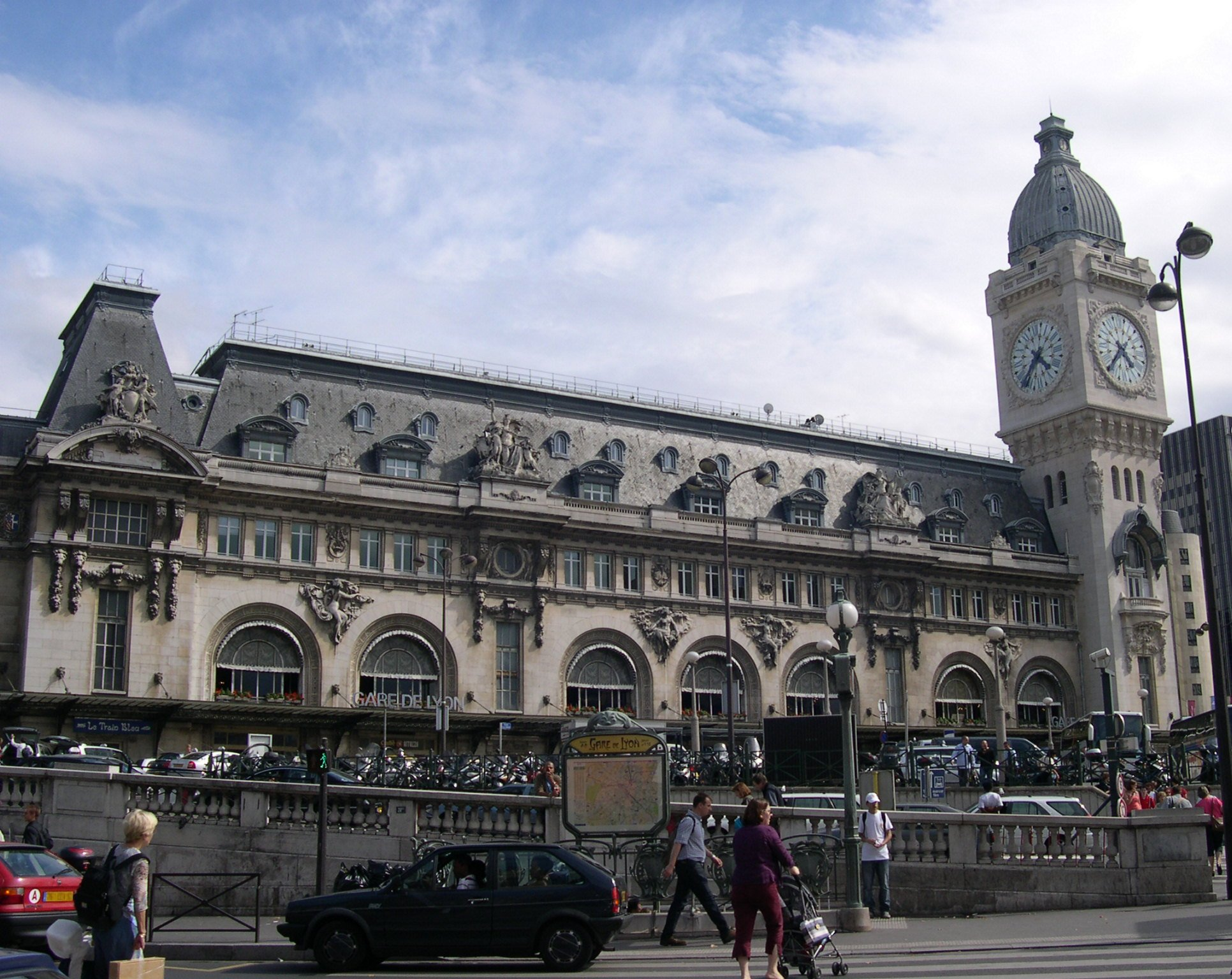 Gare de Lyon, Paris, main building, metro entrance and clock tower.